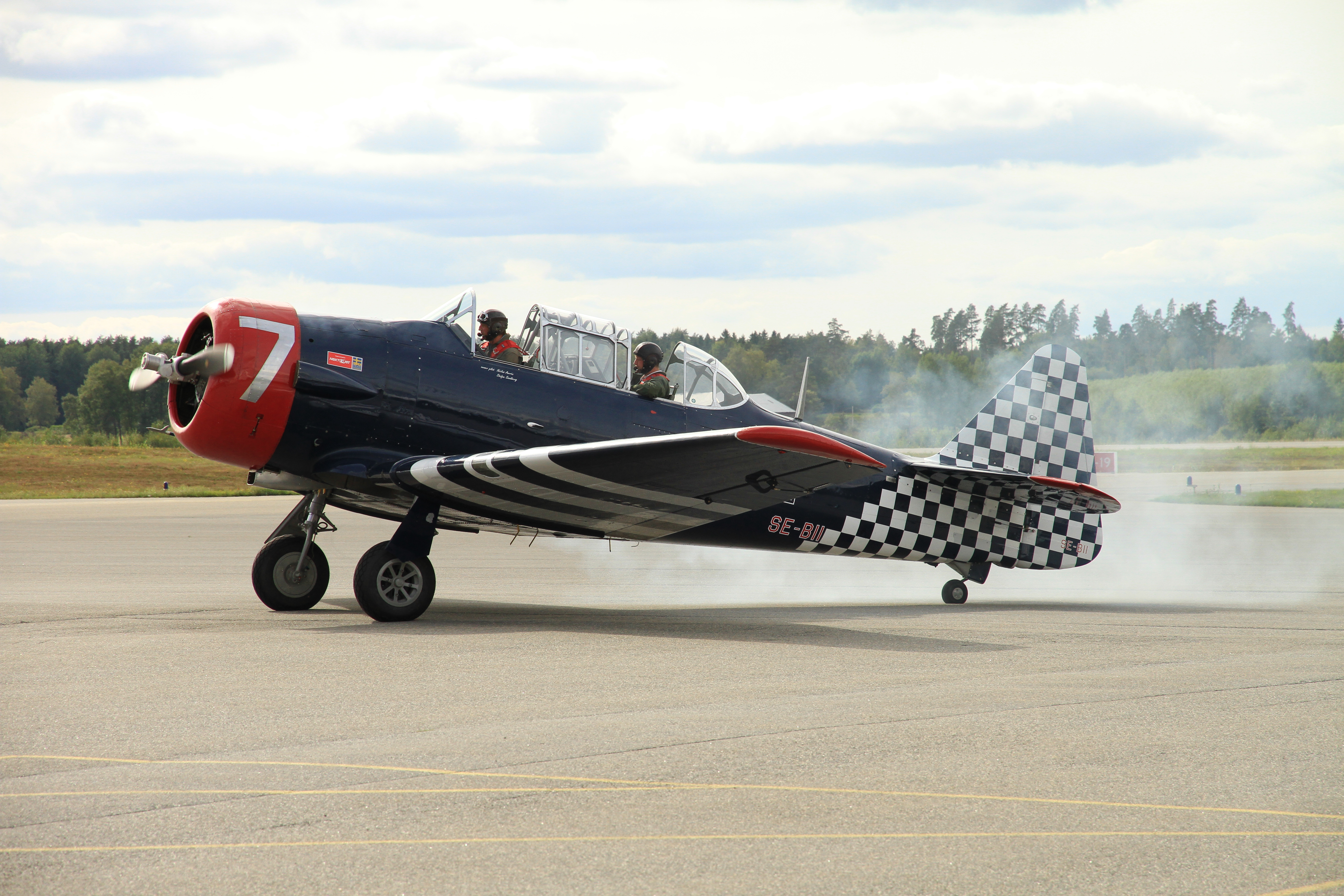 A Harvard IIB at Flygfest 2011, Örebro, Sweden